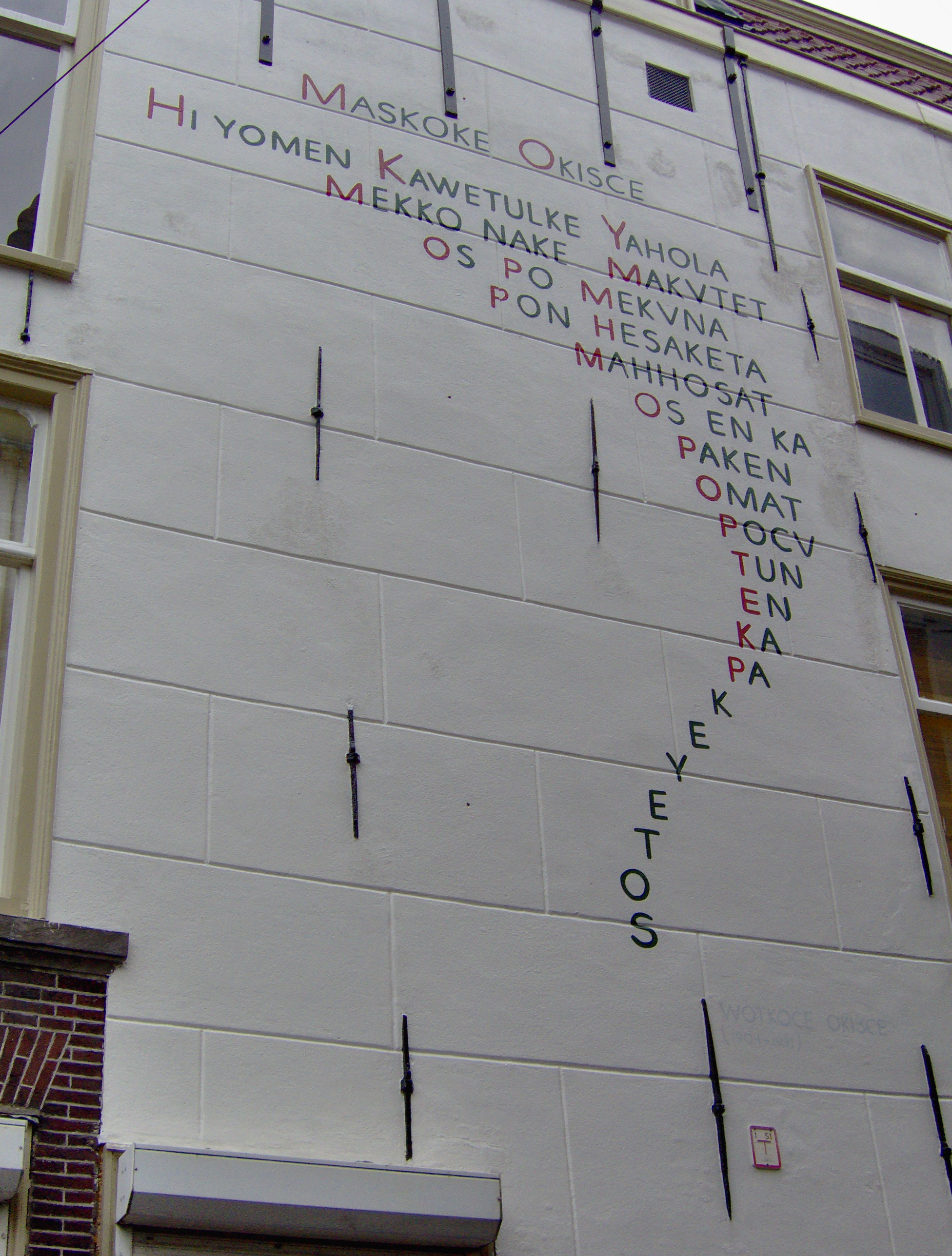 The poem Maskoke Okisce (Creek Fabel) of the Muskogee poet Louis Little Coon Oliver on a wall of the building at the Nieuwe Rijn 23, Leiden, The Netherlands